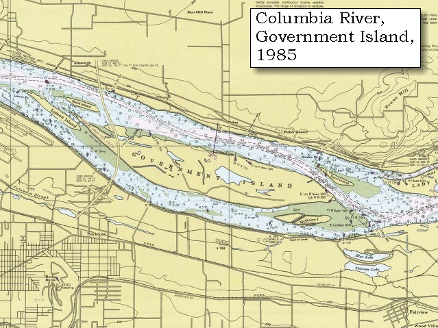 1985 map of Government Island in Multnomah County, Oregon, USA.